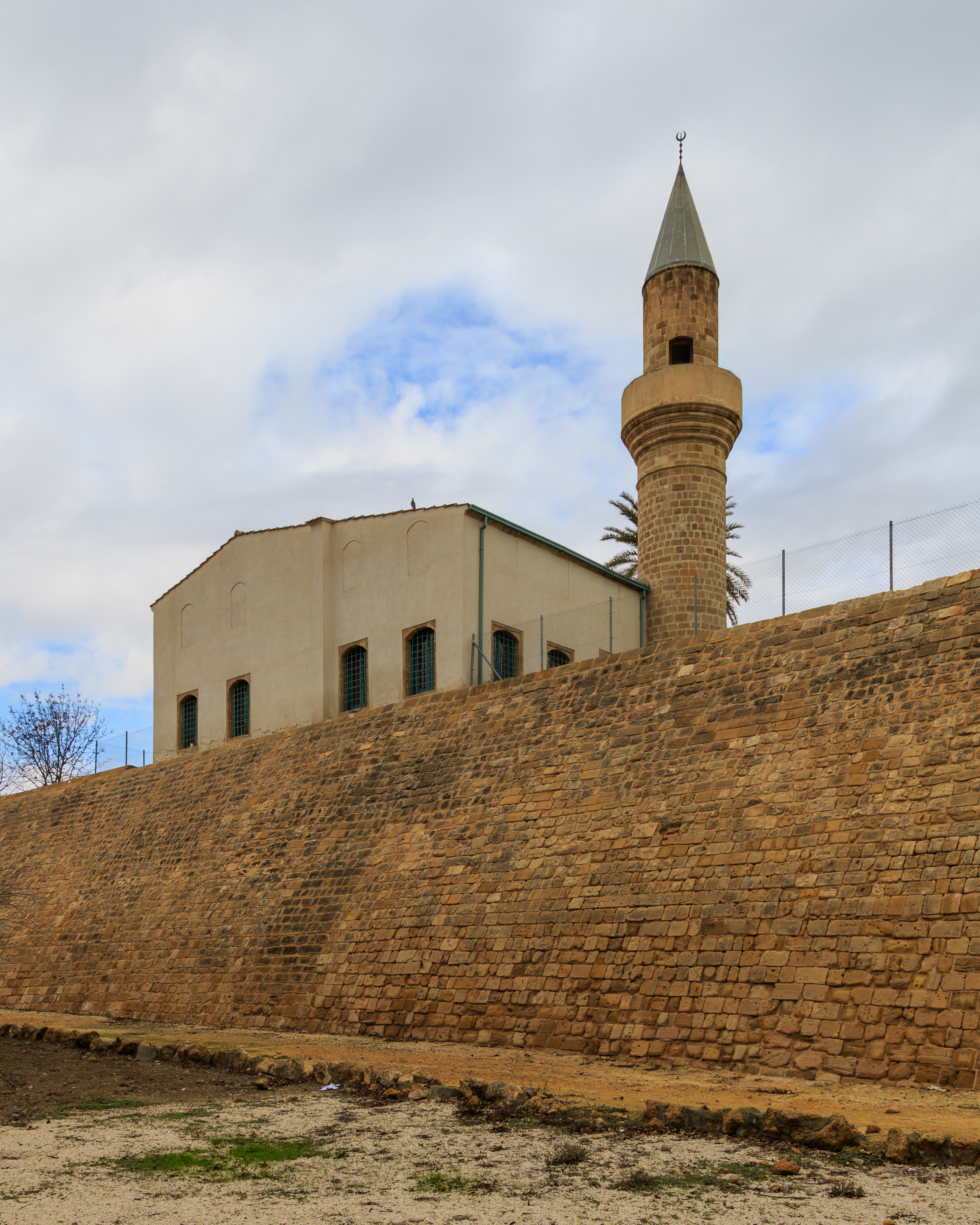 City wall and Bayraktar Mosque in Nicosia, Cyprus